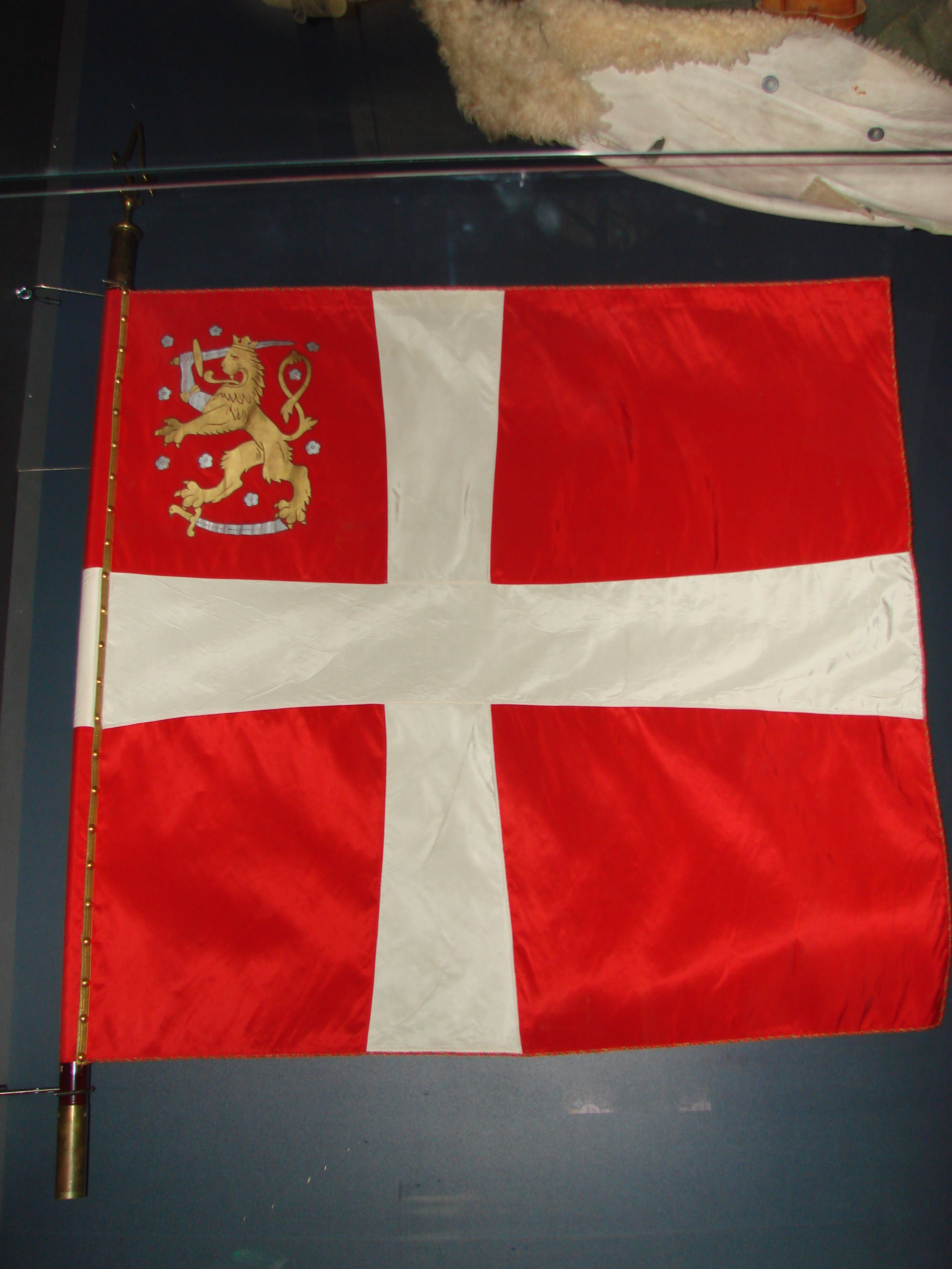 Danish Volunteer Corps flag, Winter War